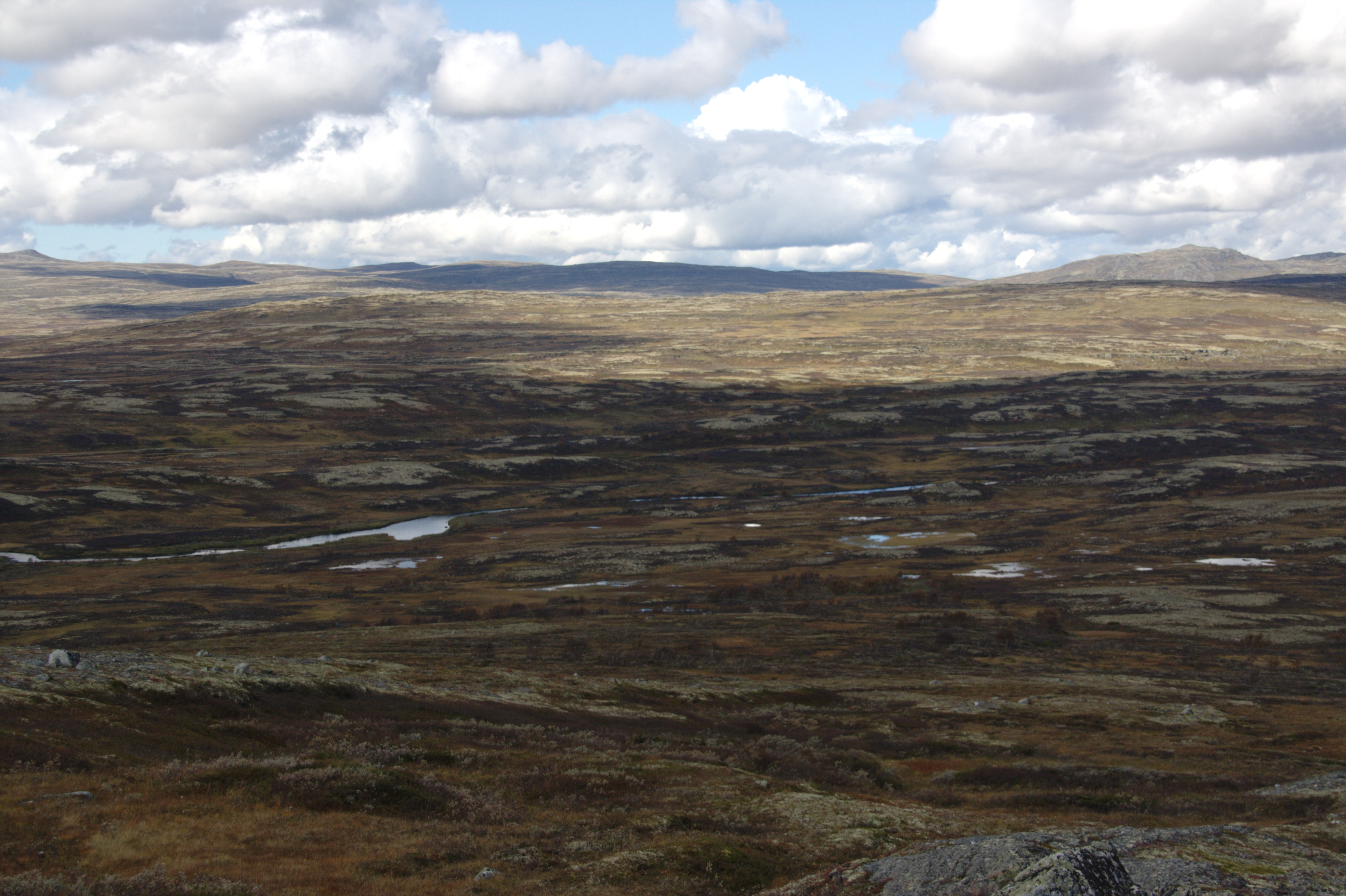 Forradalen (Forddalen) and the river Forda in Holtålen, Sør-Trøndelag, Norway